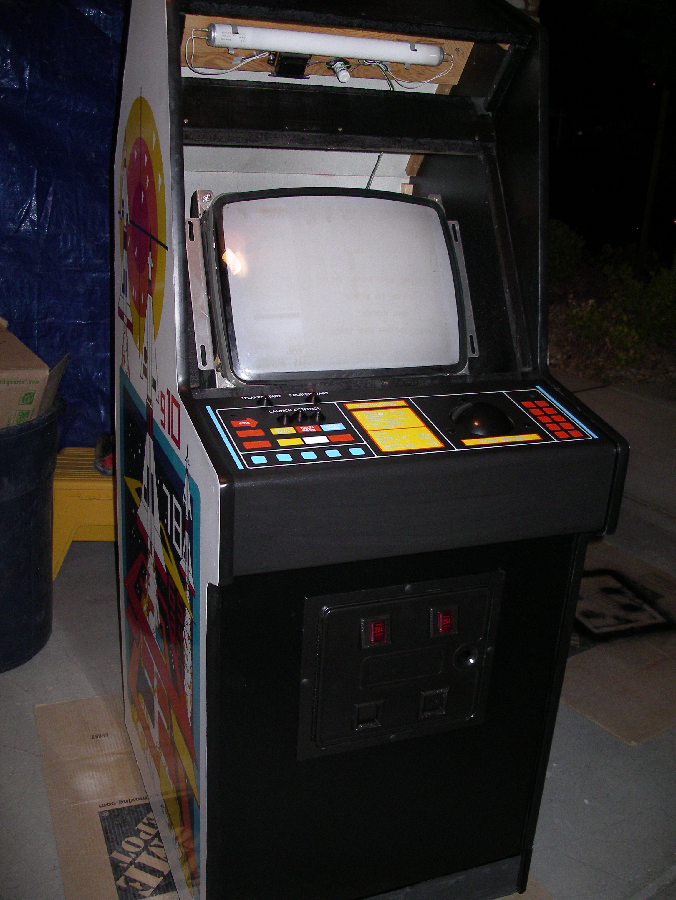 Arcade cabinet of Missile Command (without bezel and marquee) showing control panel and trackball Atari 1980)